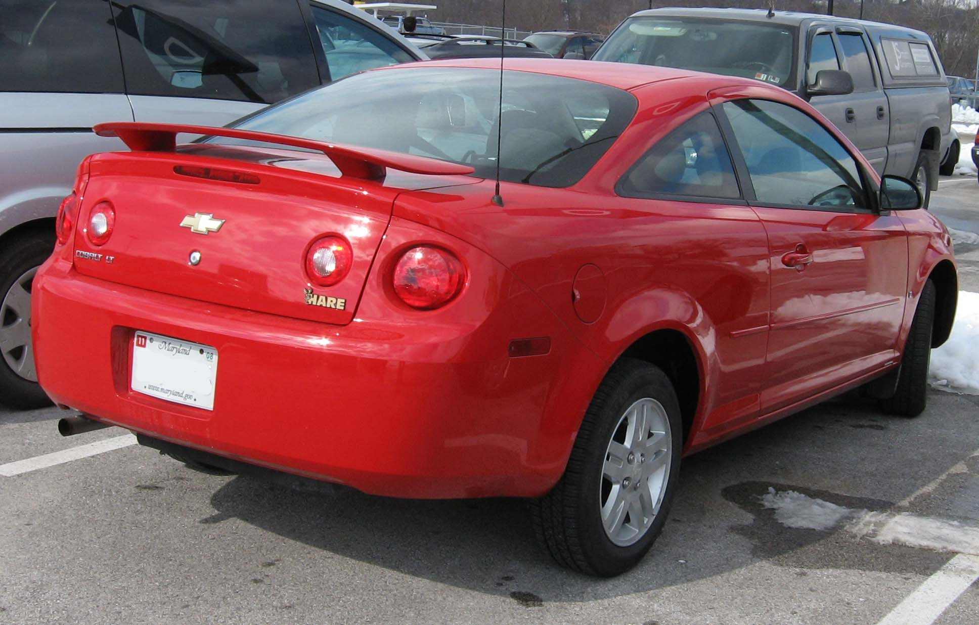 2005-2007 Chevrolet Cobalt photographed in USA.